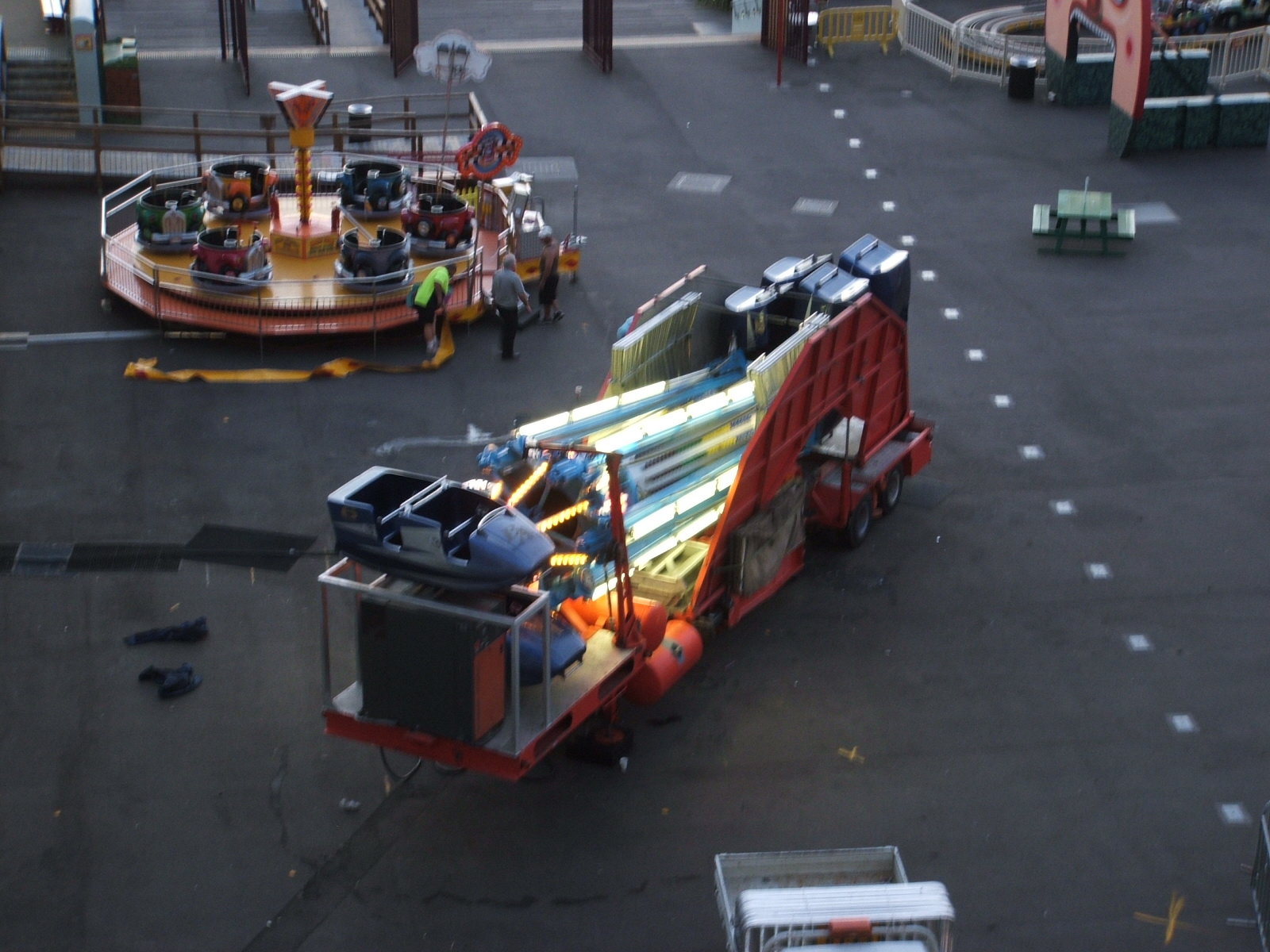 Hurricane amusement ride in the 'racked' or transportable position